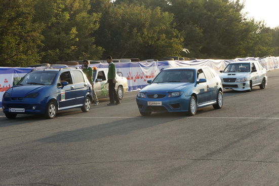 "Simorq" and "Parand" in Iranian Machine Design Competition, 2010-11